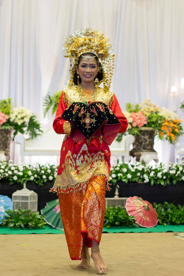 It is a traditional dance from the Minangkabau tribe which is a dance to welcome the bride when paraded to the aisle. This photo has been taken in the country: Indonesia